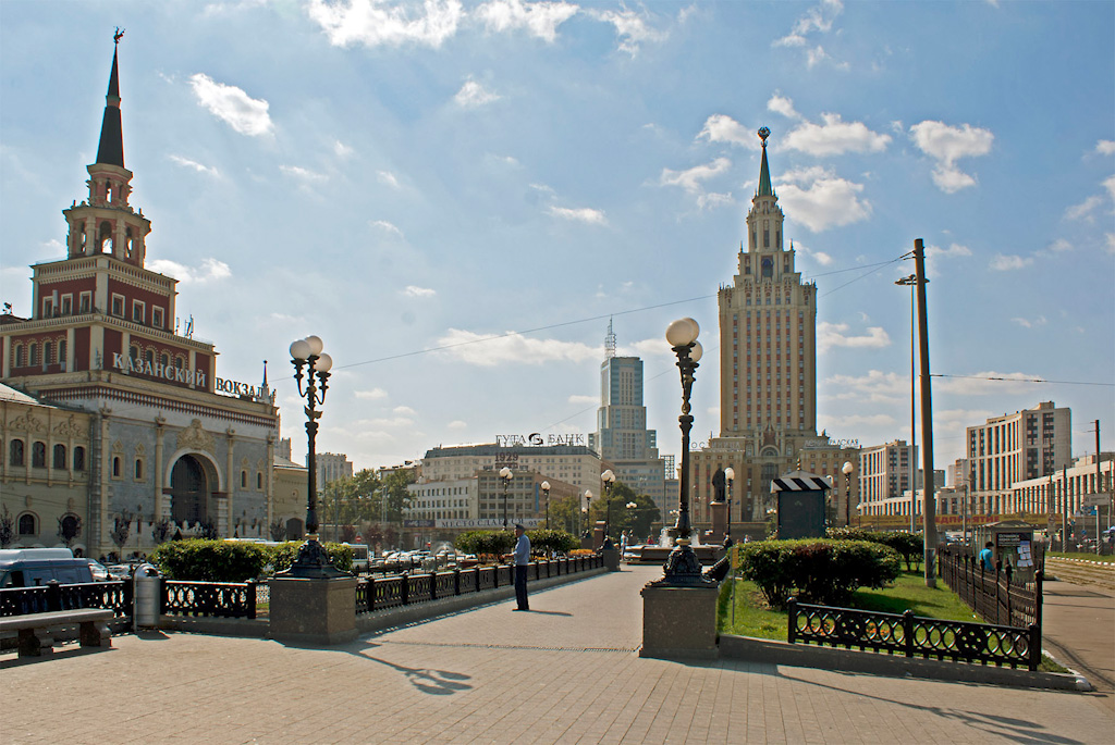 Komsomolskaya Square in Moscow